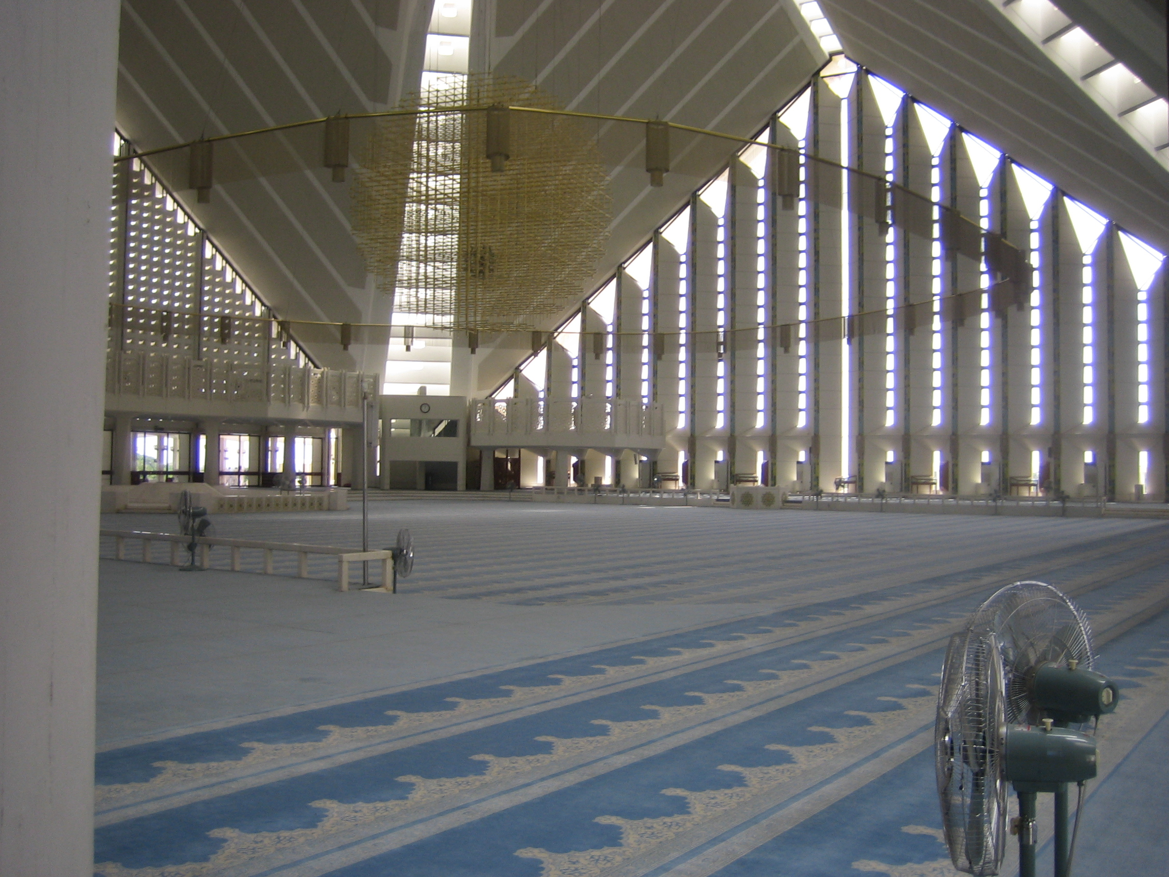 Inside the Shah Faisal Mosque in Islamabad, Pakistan.